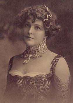 Nellie Stewart, c. 1895